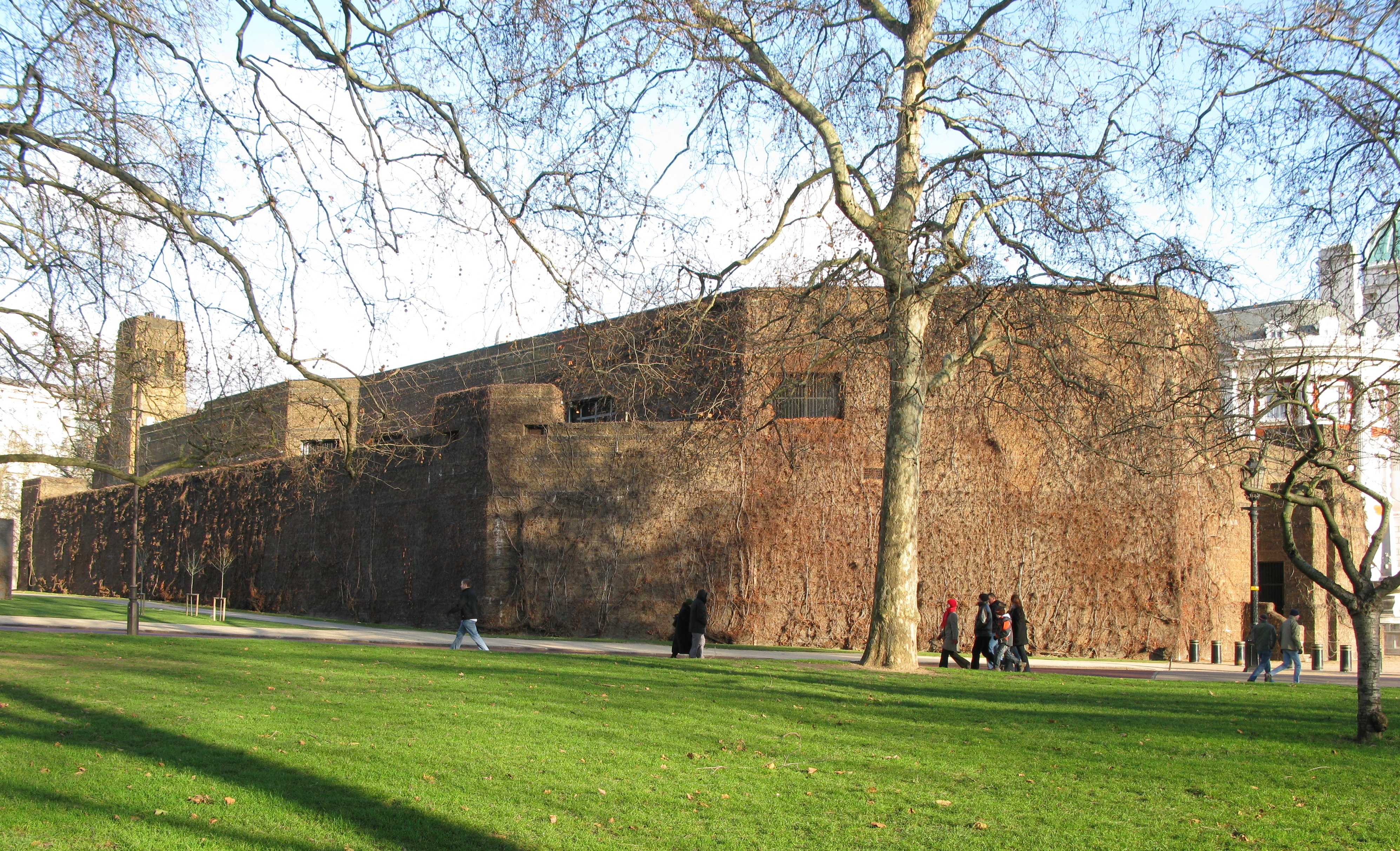 Photo of the Admiralty Citadel in london taken from st james park.